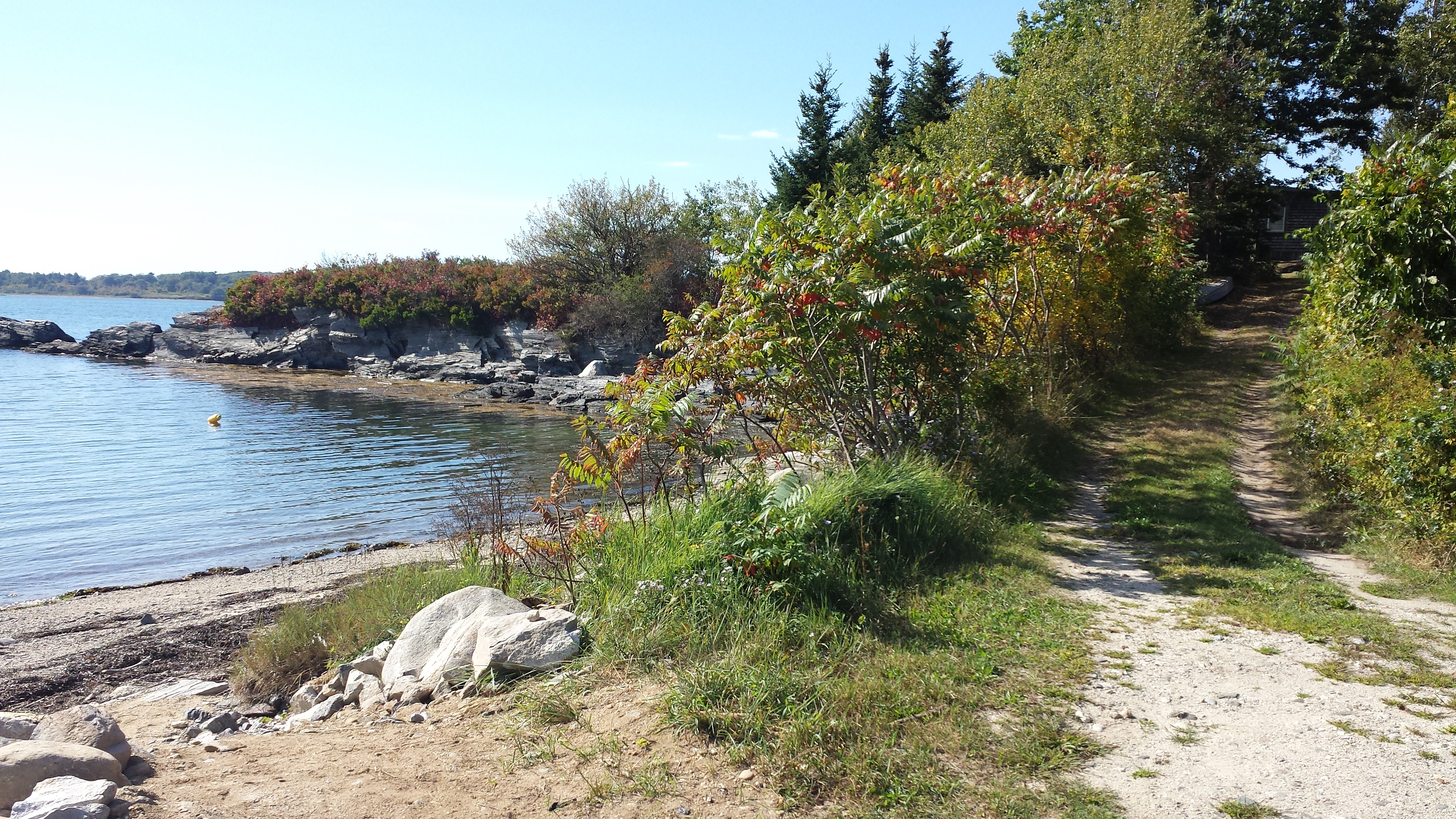 Chebeague Island, an island town in Cumberland County, Maine, United States, located in Casco Bay